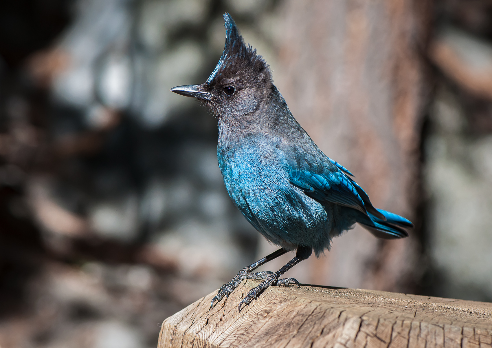 Steller's Jay (Cyanocitta stelleri) near Mariposa, USA